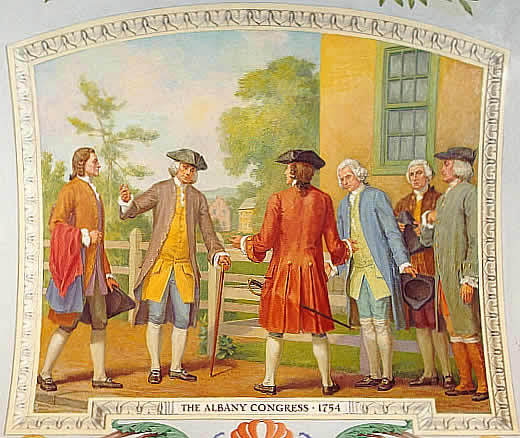 In 1754 the British government asked colonial representatives to meet in Albany, New York, to develop a treaty with Native Americans and plan the defense of the colonies against France. Exceeding these limited objectives, the assembly adopted a plan developed by Benjamin Franklin for government of the colonies by a central executive and a council of delegates. Although rejected by England and the colonies, the Albany Plan became a useful guide in the years leading up to the Revolutionary War. The mural depicts some of the delegates (from left to right): William Franklin and his father, Benjamin (Pennsylvania); Governor Thomas Hutchinson (Massachusetts); Governor William Delancey (New York); Sir William Johnson (Massachusetts); Colonel Benjamin Tasker (Maryland).